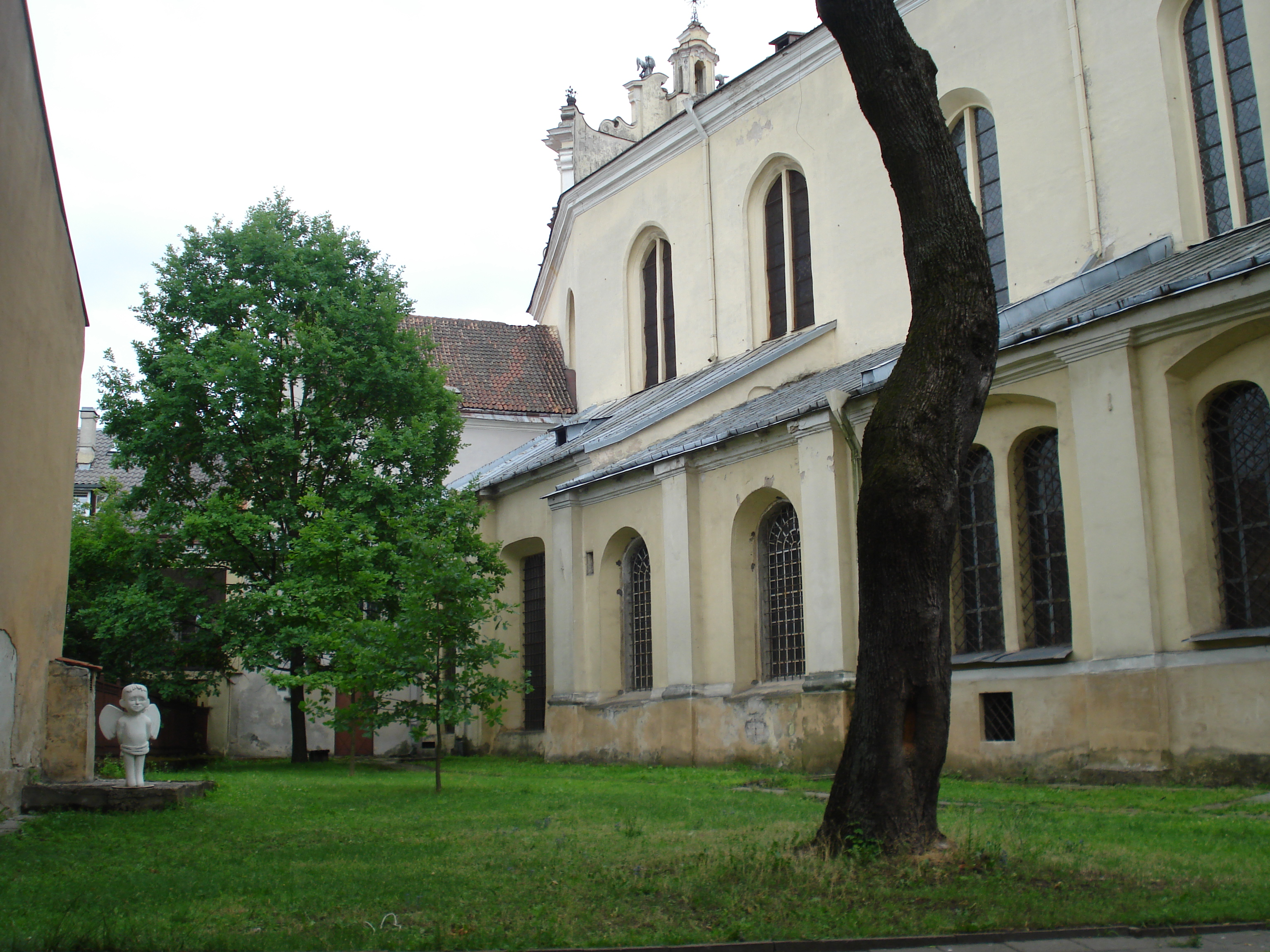 K. Sirvydas Courtyard Between the north wing of the Great Courtyard and the Church of Sts. John (Vilnius University)